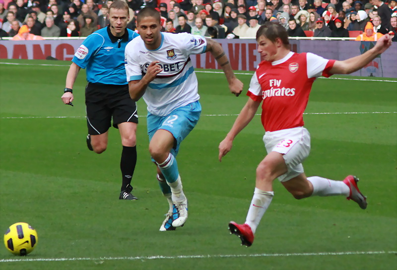 Andrei Arshavin, defended by Manuel da Costa Arsenal v West Ham United at the Emirates Stadium on 30 October 2010. Arsenal won 1-0 with a late 88minute goal by Alex Song.